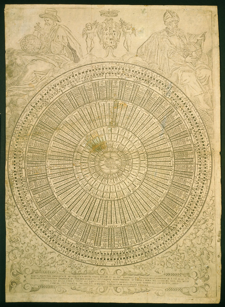 AuthorAntonio SantucciDescription